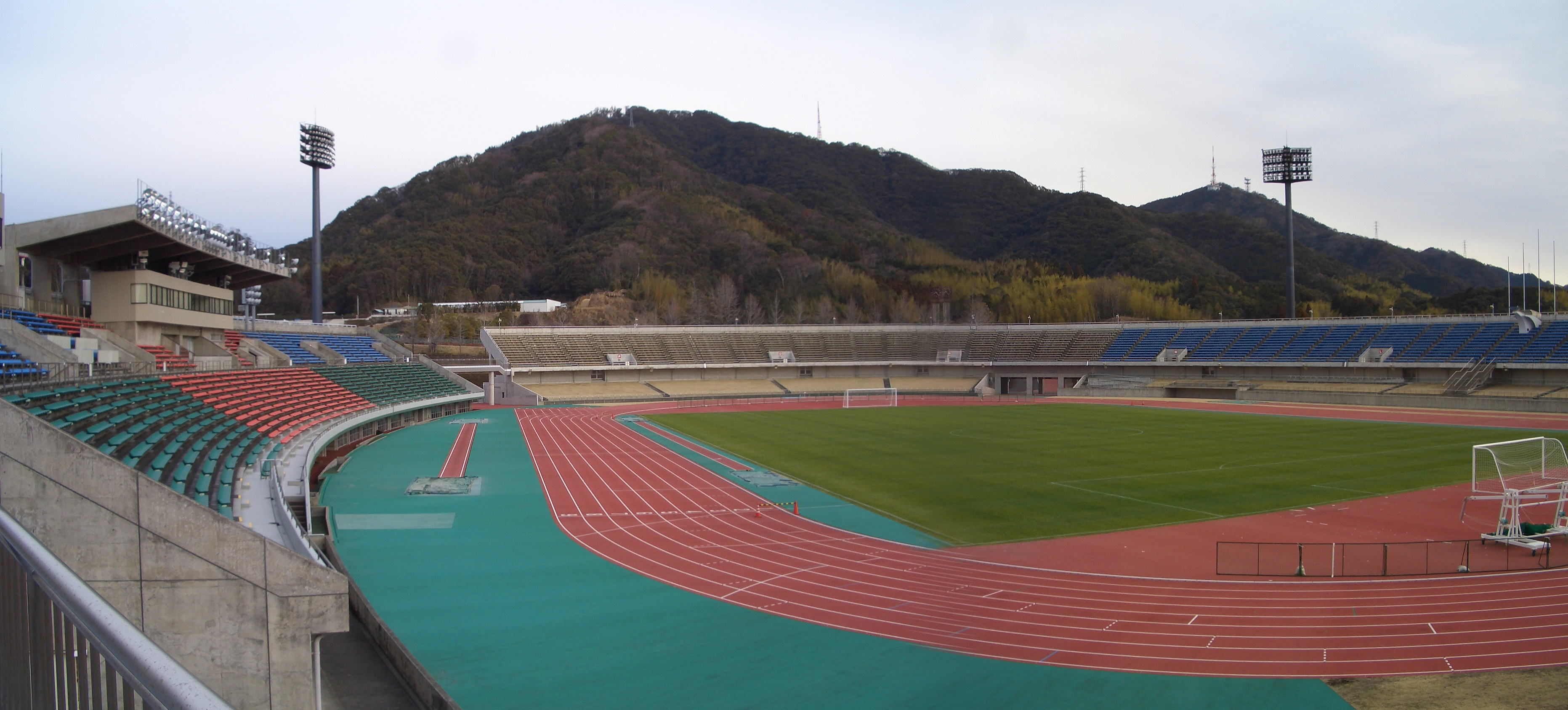 Haruno Sportspark MainStadium. Kochi-shi,Japan